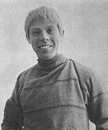 Ragnar Klange (1893-1976) as Bengt in the play Min ska du bli by Ernst Fredrik Fastbom